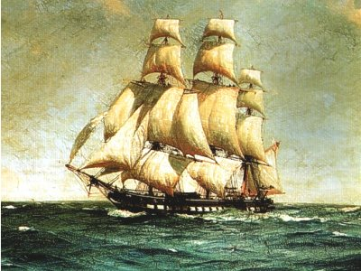 French Frigate Lutine, launched in 1779, captured by the Royal Navy, recommissioned as HMS Lutine, and lost in 1799.